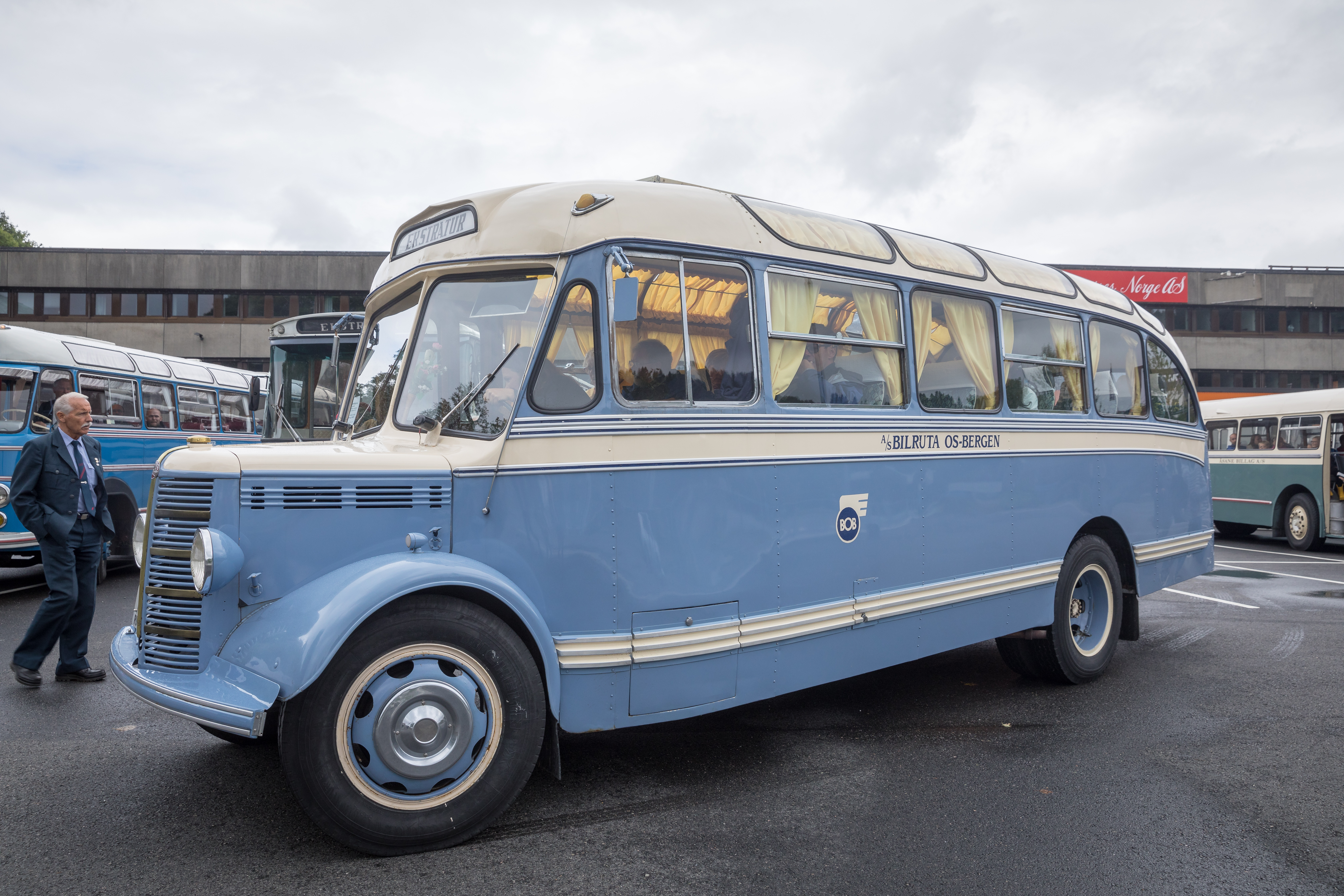 Vintage vehicles at Fjordsteam 2018. The maritime heritage festival took place between August 2 and August 5 2018 in Bergen, Norway.